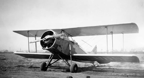 Catalog #: 00064031 Manufacturer: Crown Designation: B-3 Official Nickname: Custombilt Notes: Repository: San Diego Air and Space Museum Archive